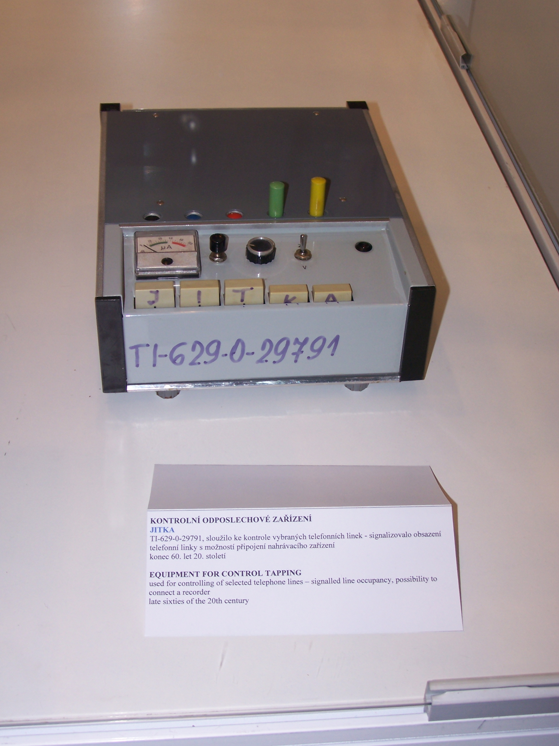 "Jitka" telephone tapping equipment, signalled line occupancy, possibility to connect a recorder, late sixties of 20th century, used by Czech StB